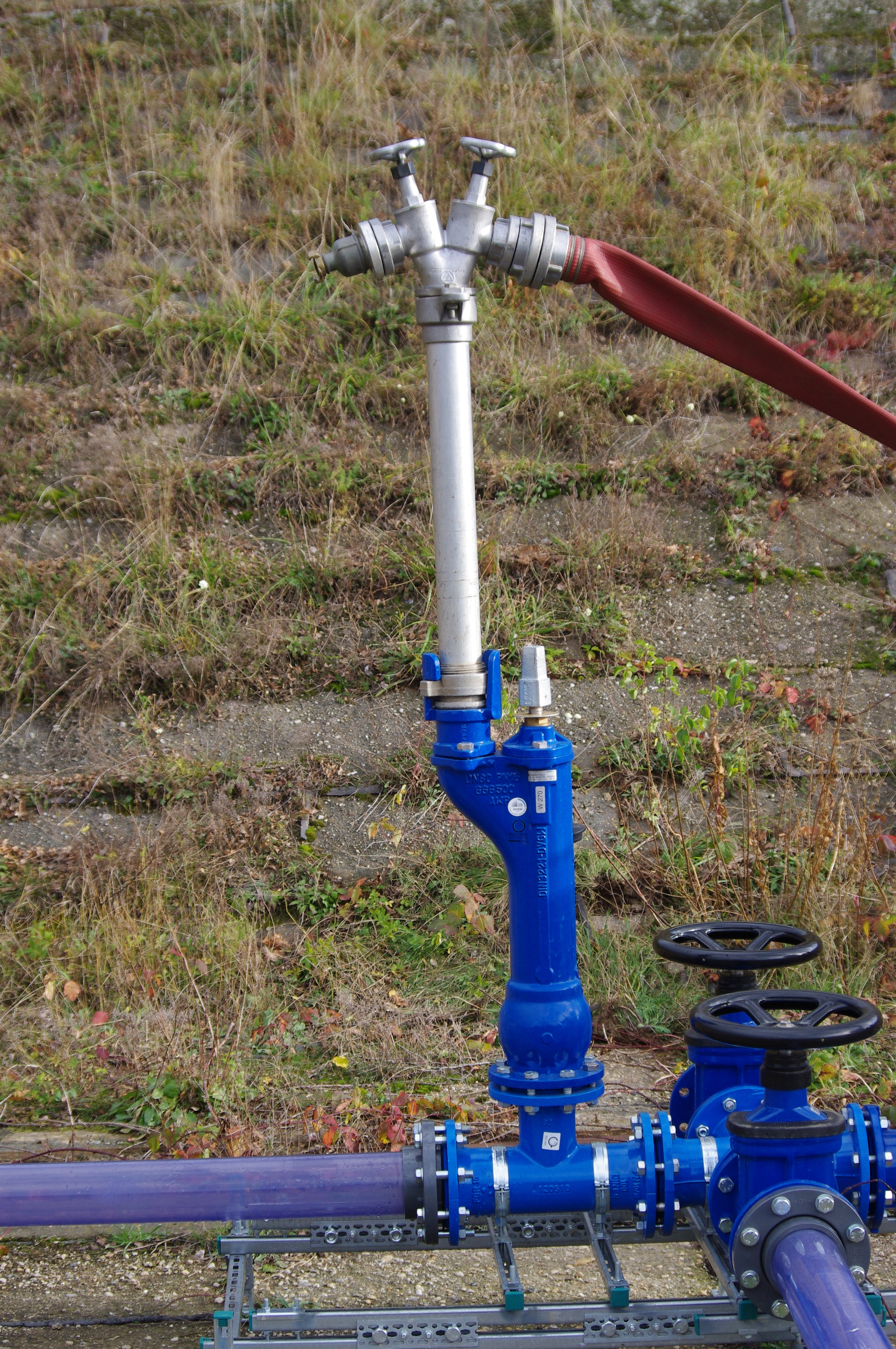 typical german "Unterflurhydrant" normally located beneath the ground surface